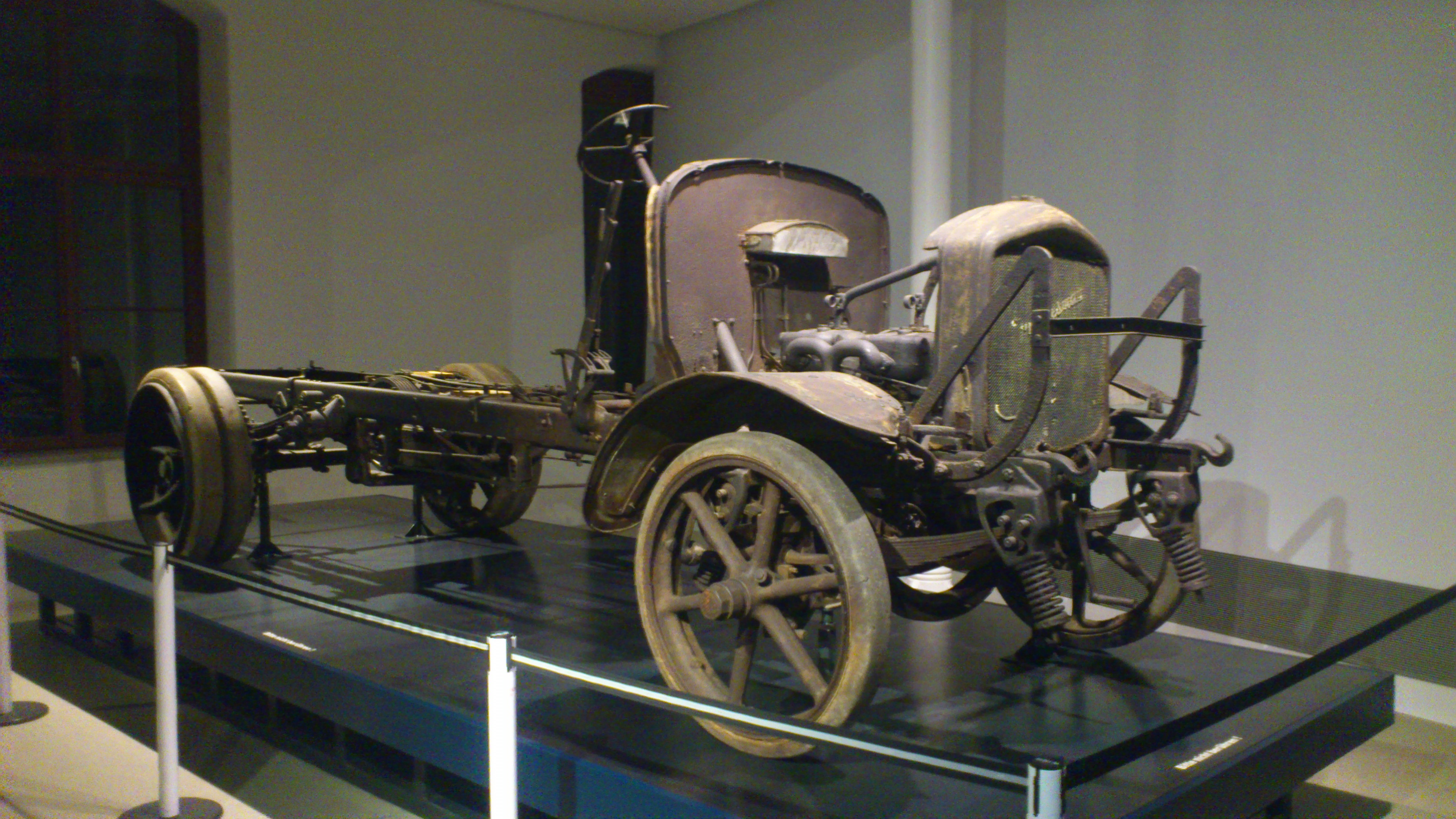 Ladder chassis of a Mannesmann-MULAG truck, seen in Bundeswehr Military History Museum in Dresden